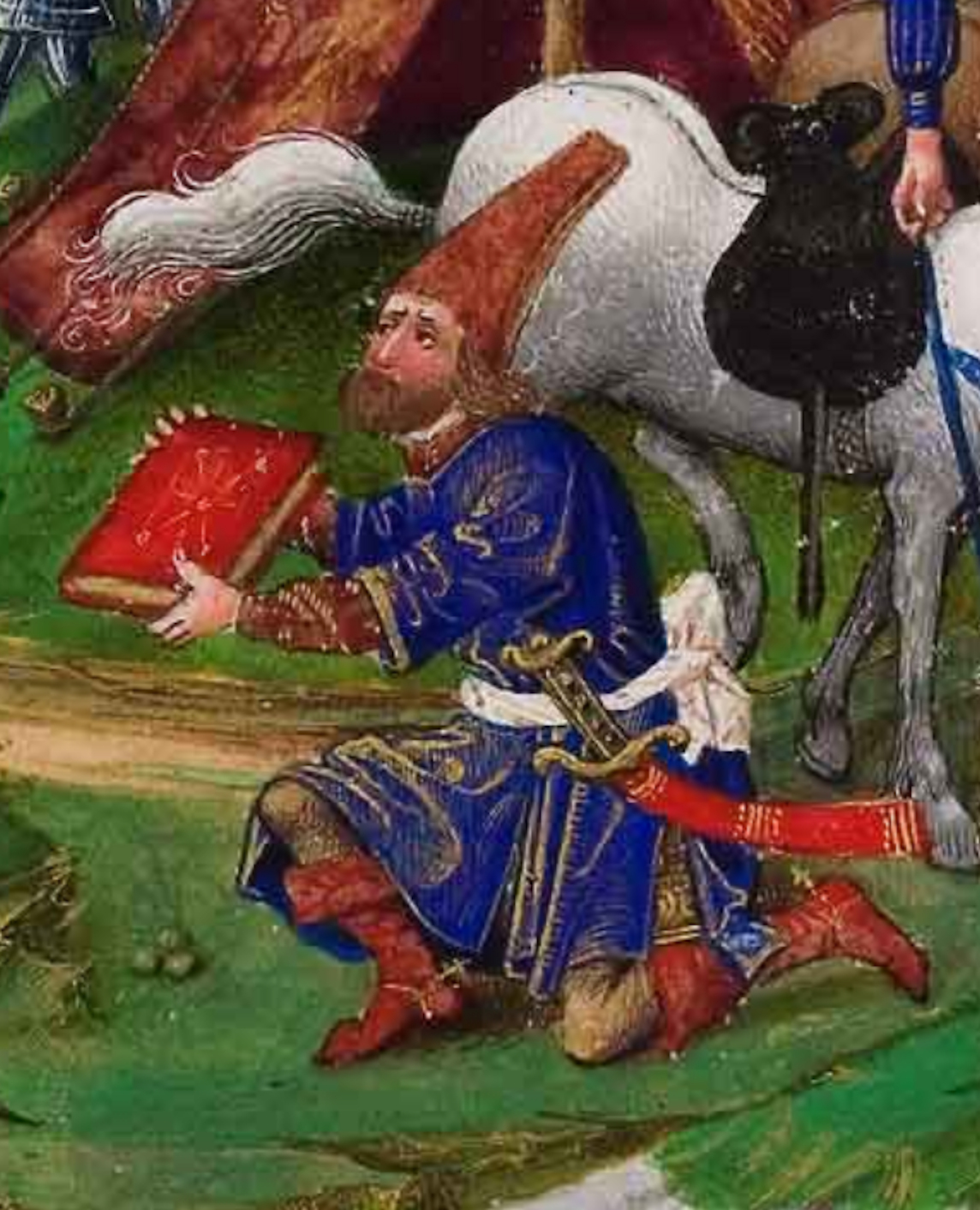 Bertrandon de la Broquière offers a Koran to Duke Philip (detail of Bertrandon de la Broquière) Jean Le Tavernier (–1462) Alternative names Jan de TavernierDescriptionFlemish painter and miniaturistDate of birth/death 15th century date QS:P,+1450-00-00T00:00:00Z/7 1462Location of birth/death Oudenaarde OudenaardeWork period1454-1462Work location Oudenaarde; LilleAuthority control : Q734843 VIAF: 7438689 ISNI: 0000 0000 0069 1260 LCCN: nr97035577 WGA: LE TAVERNIER, Jean GND: 122231848 WorldCat creator QS:P170,Q734843